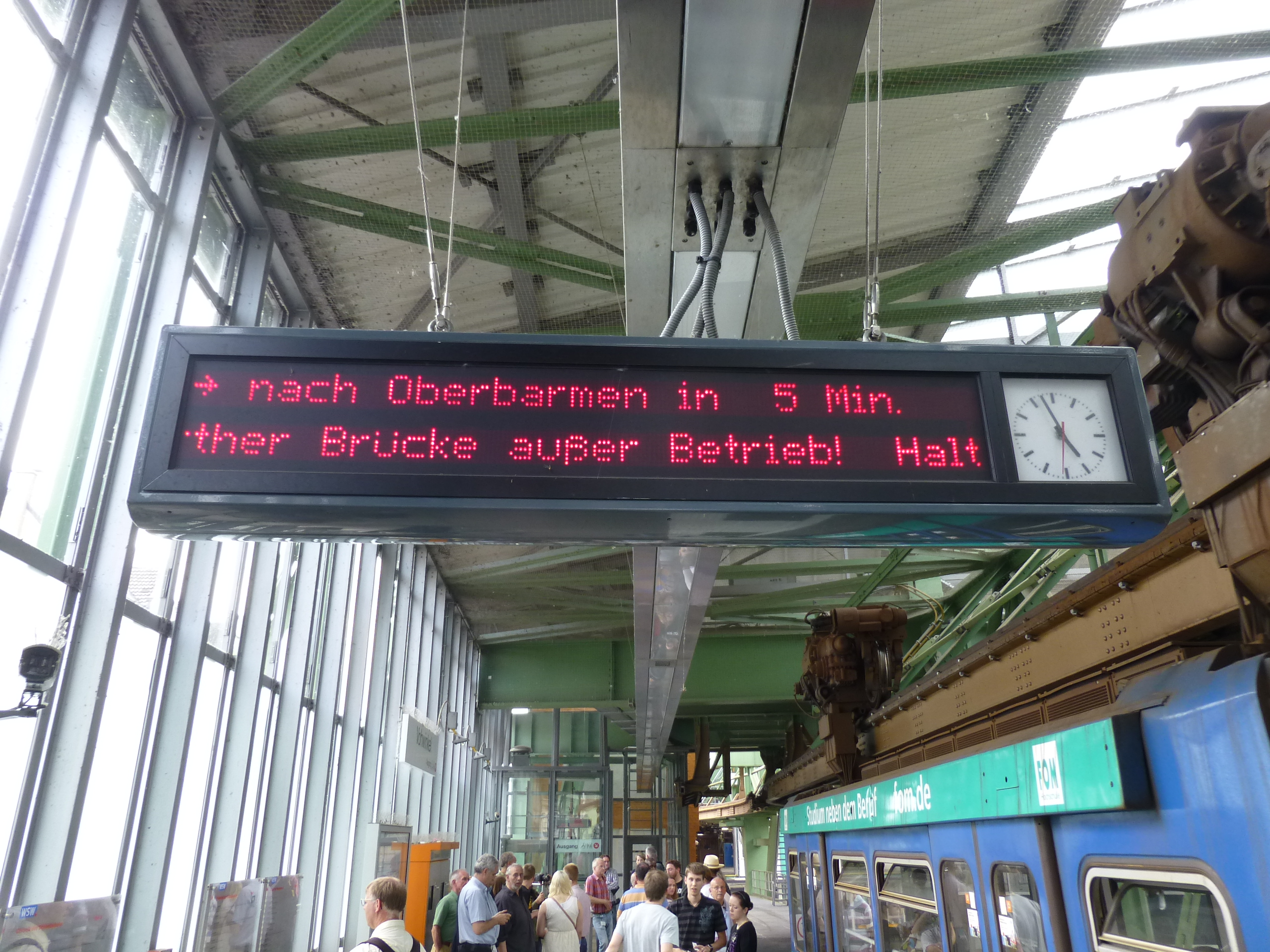 The action "We invite Samuel to Wuppertal".